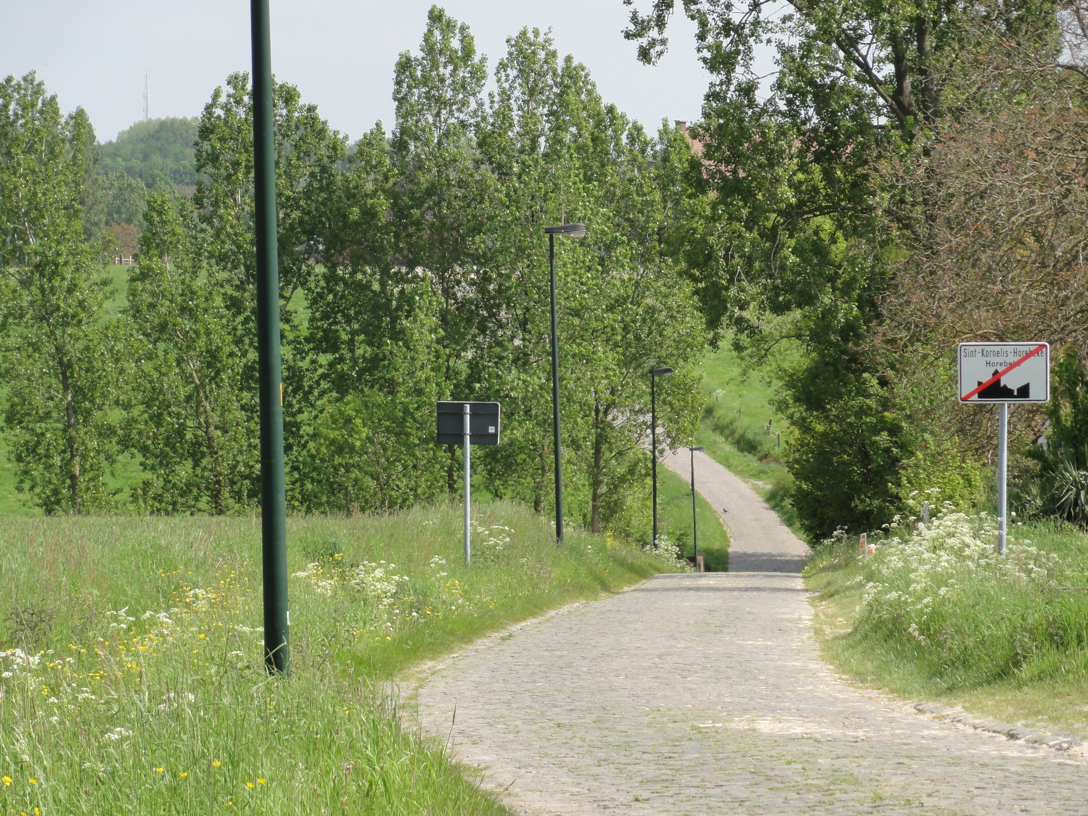 Haaghoek cobblestone road in Sint-Kornelis-Horebeke. Sint-Kornelis-Horebeke, Horebeke, East Flanders, Belgium